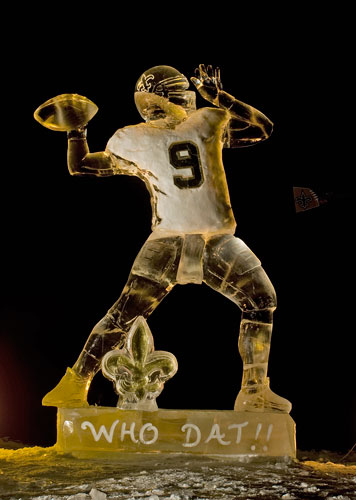 This is a nine foot tall ice sculpture depicting New Orleans Saints (American football team) quarterback Drew Brees in the midst of a throw. Dawson List (the owner of the photo as well) sculpted it in Fairbanks, Alaska